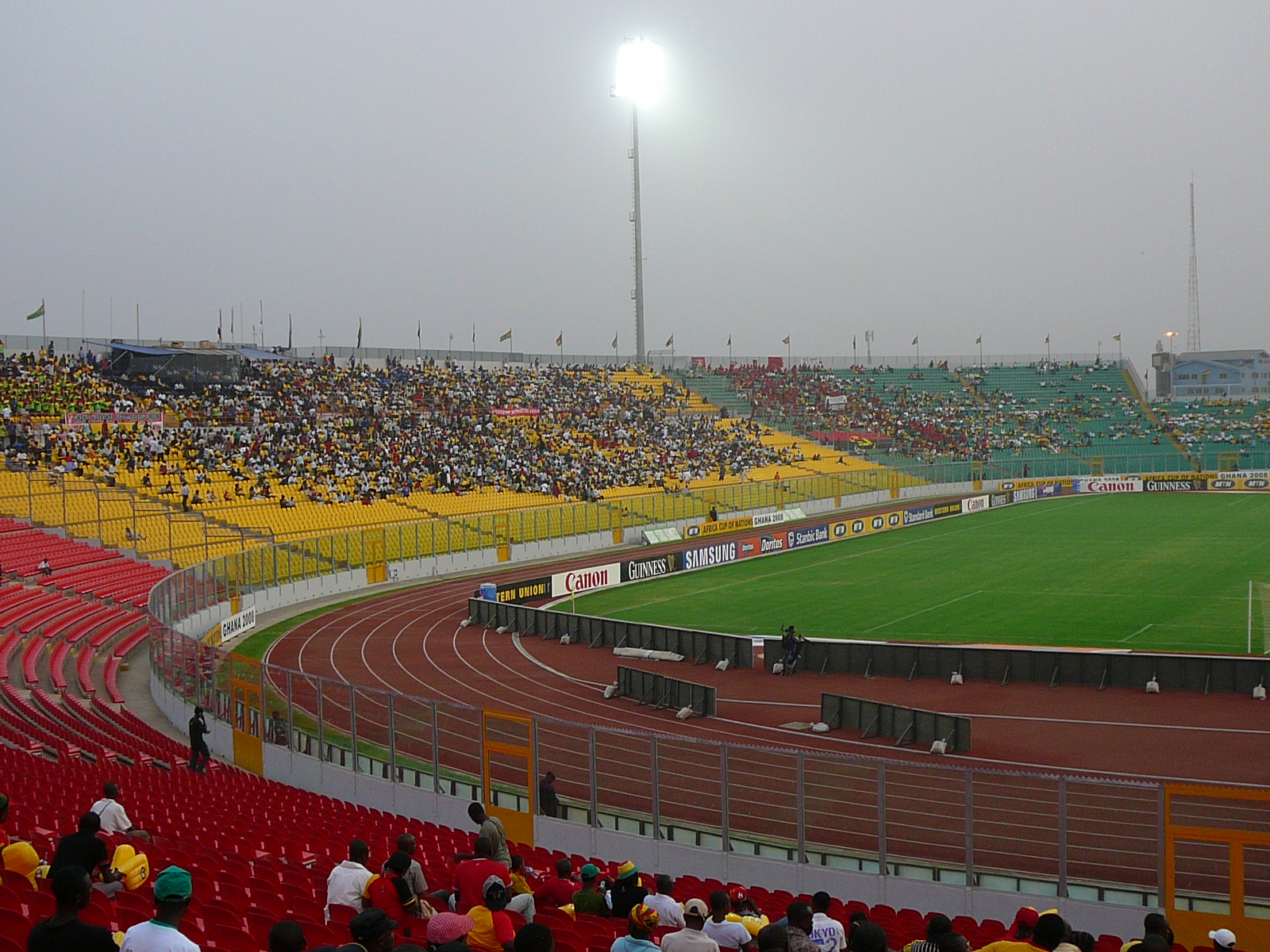 Kumasi, Baba Yara Stadium Quarterfinal Africa Cup 2008 (Eygpt: Angola)